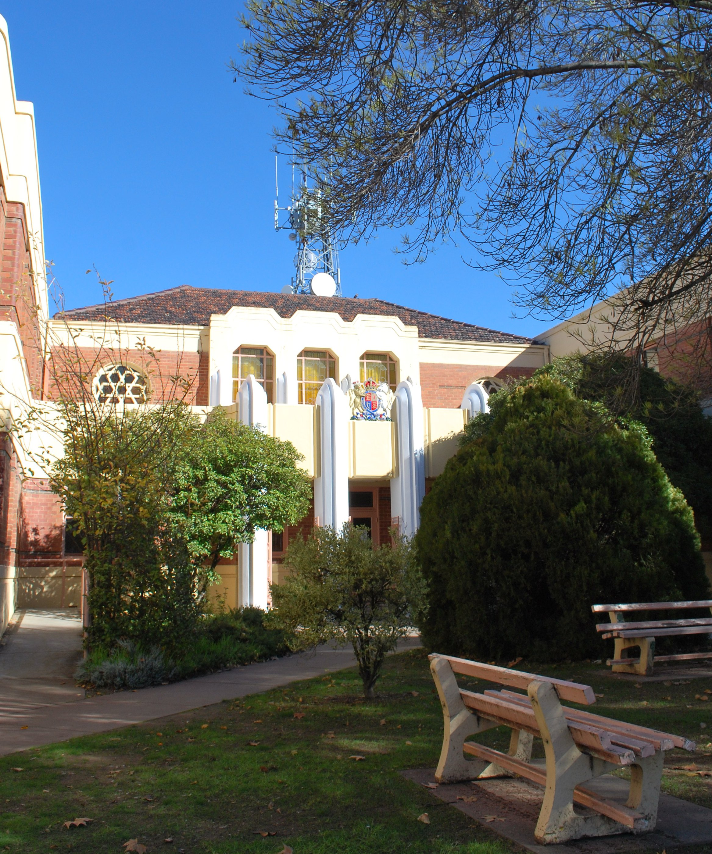 Court house at Wangaratta, Victoria